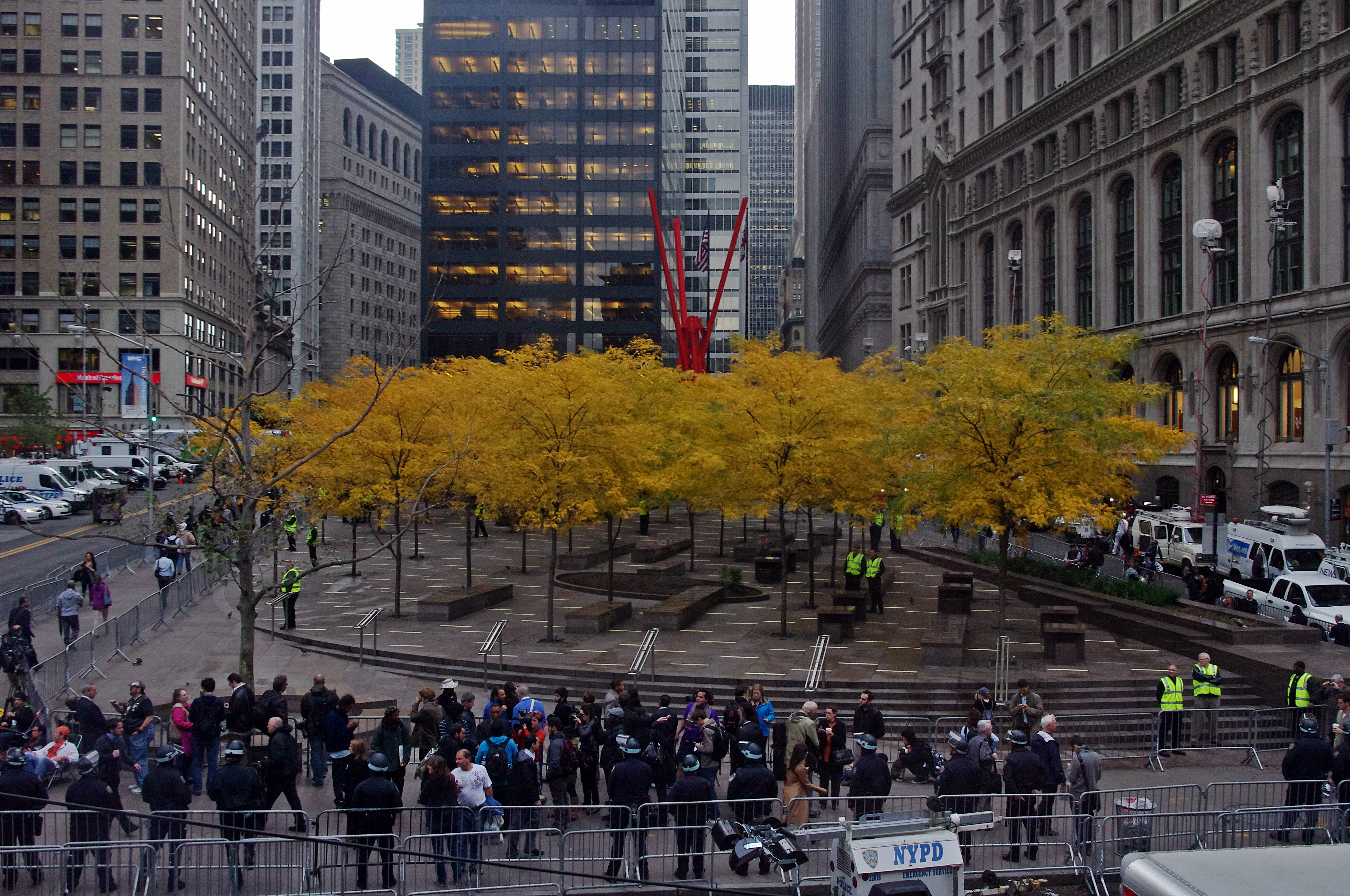 Tuesday morning the police evicted the Occupy Wall Street protesters and cleaned the park. Tensions ran high that morning - scenes from an empty Zuccotti around 9:15 a.m.; the regrouping of the protesters at a lot on Canal & 6th Street around 10:15 a.m.; and then their return to Zuccotti to confront the police around 11:00 a.m.